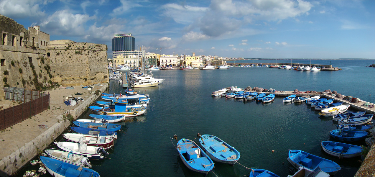 Gallipoli, Apulia, Italy. The south harbour seen from the old town. In the foreground on the left, the walls of the Angevine-Aragonese Castle. In the background, the new town on the other side of the bridge.